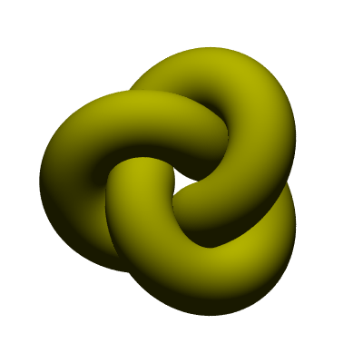 The picture shows a numeric approximation of an ideal trefoil, i.e. the shortest trefoil that can be tied for the given thickness. Ropelength